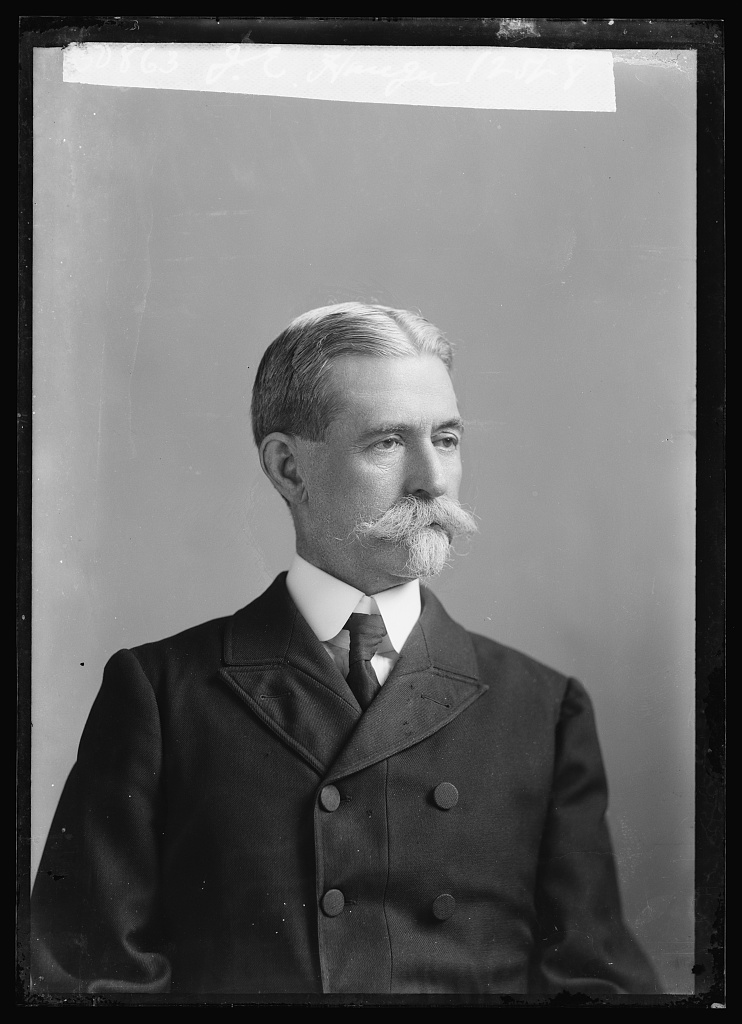 James Edward Hangar photographed by C. M. Bell Studio